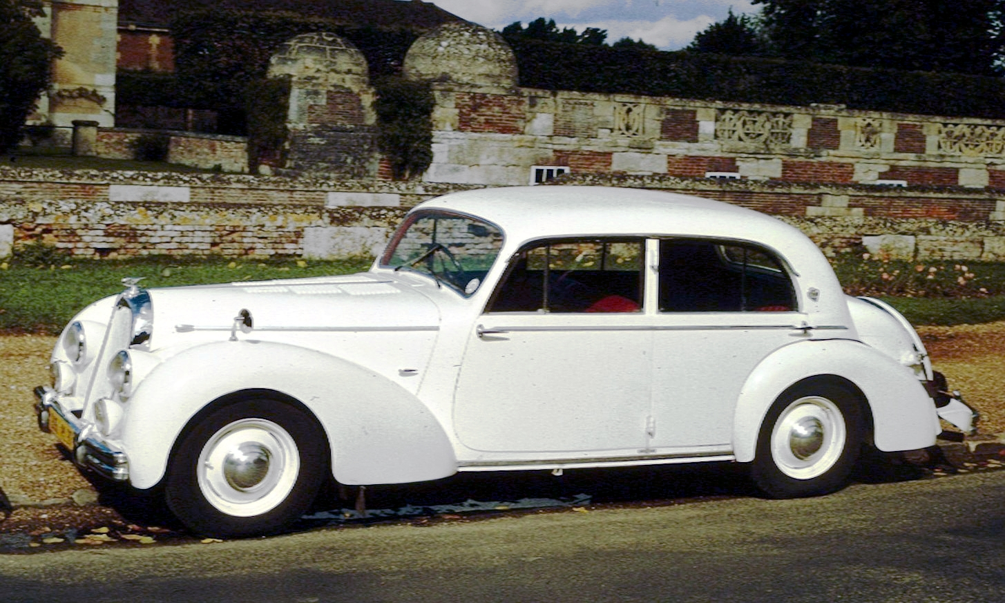 Talbot-Lago Record (1948 - 1951) at Anet Based on pre-war designs, the Talbot Record T26 was already launched in public in 1946. For the 1947 Paris Motor Show, in respect of the 1948 model, the bumper was modified and the headlights and fog lights were repositioned (lowered). The car in the picture has the lower front lights, suggesting that it was manufactured for or after 1948. A dramatic new three-box "ponton" body appeared in June 1951, and while there may still have been a few cars produced or sold with the "1948-style" body after that date, it is unlikely that the car in this picture was produced any time after 1951.